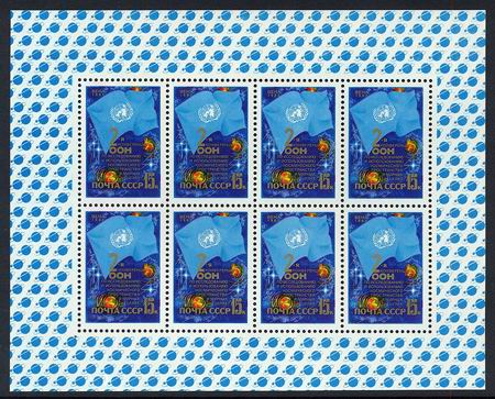 A miniature sheet of USSR stamps, 2nd UN Conference on Peaceful Exploration of Space, 1982, CPA 5307.